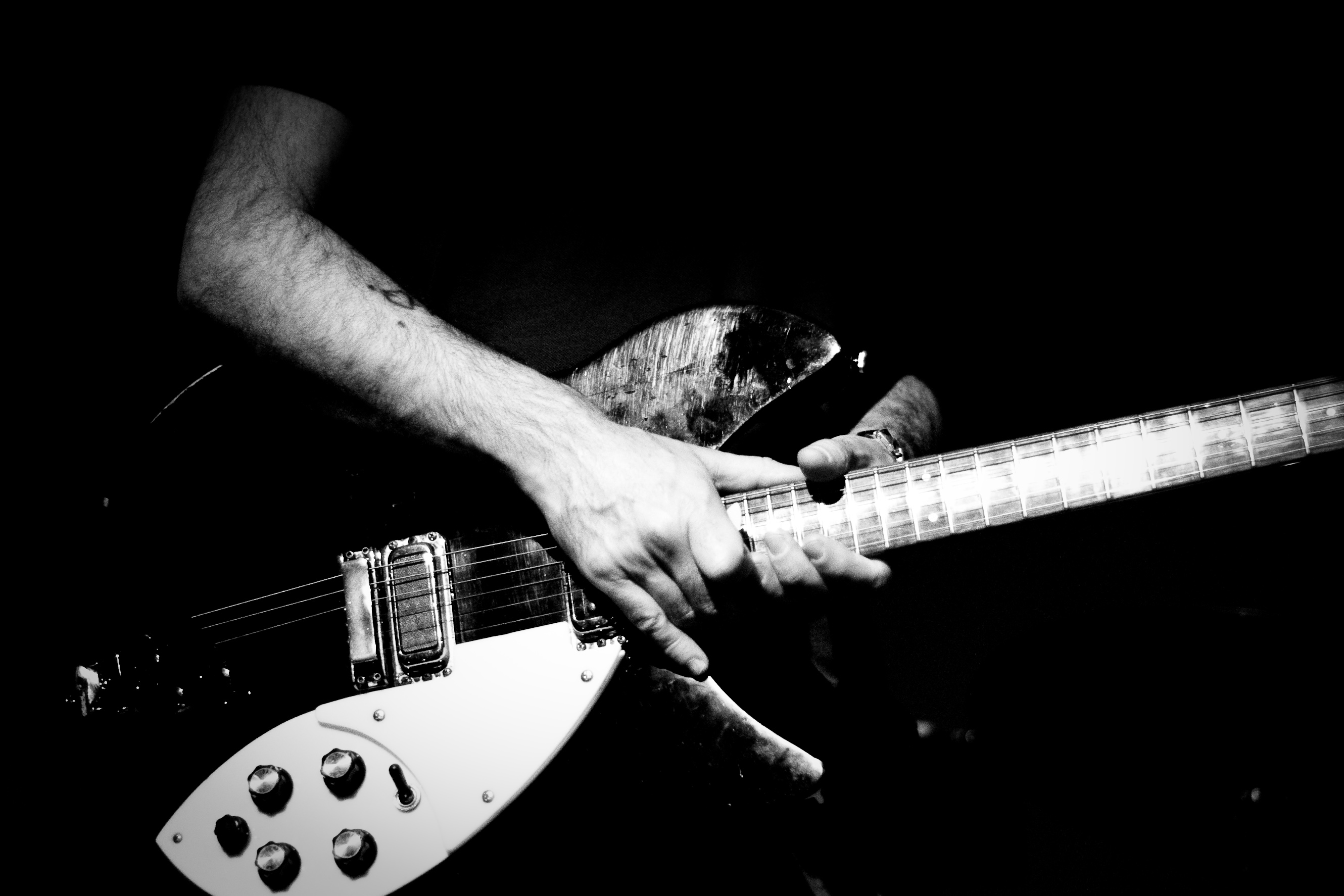 Guy Picciotto['s arm] & guitar, prior to performing with Vic Chesnutt.